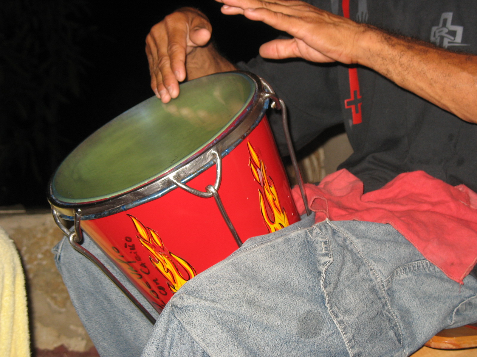 Caja vallenata